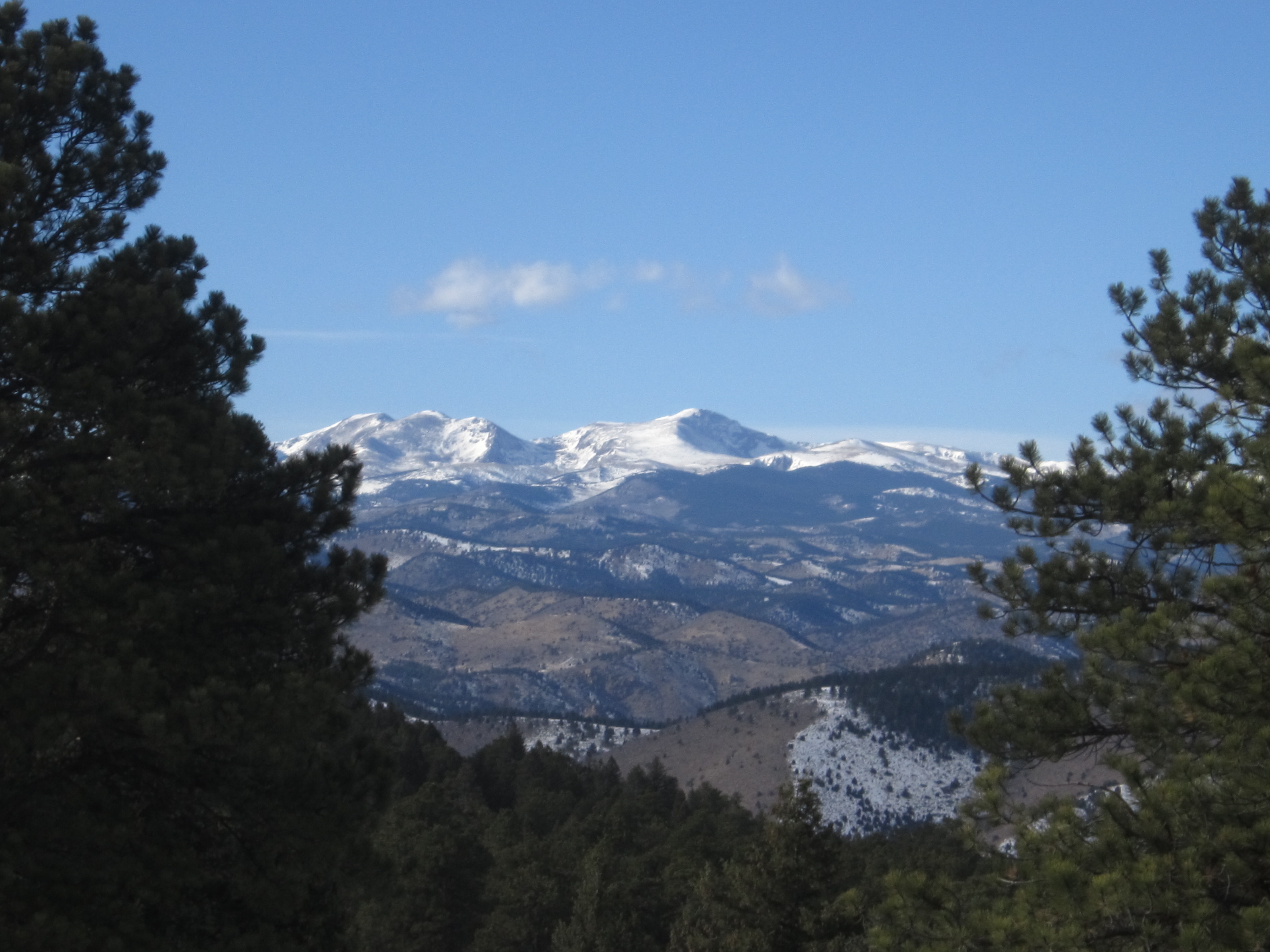 front range